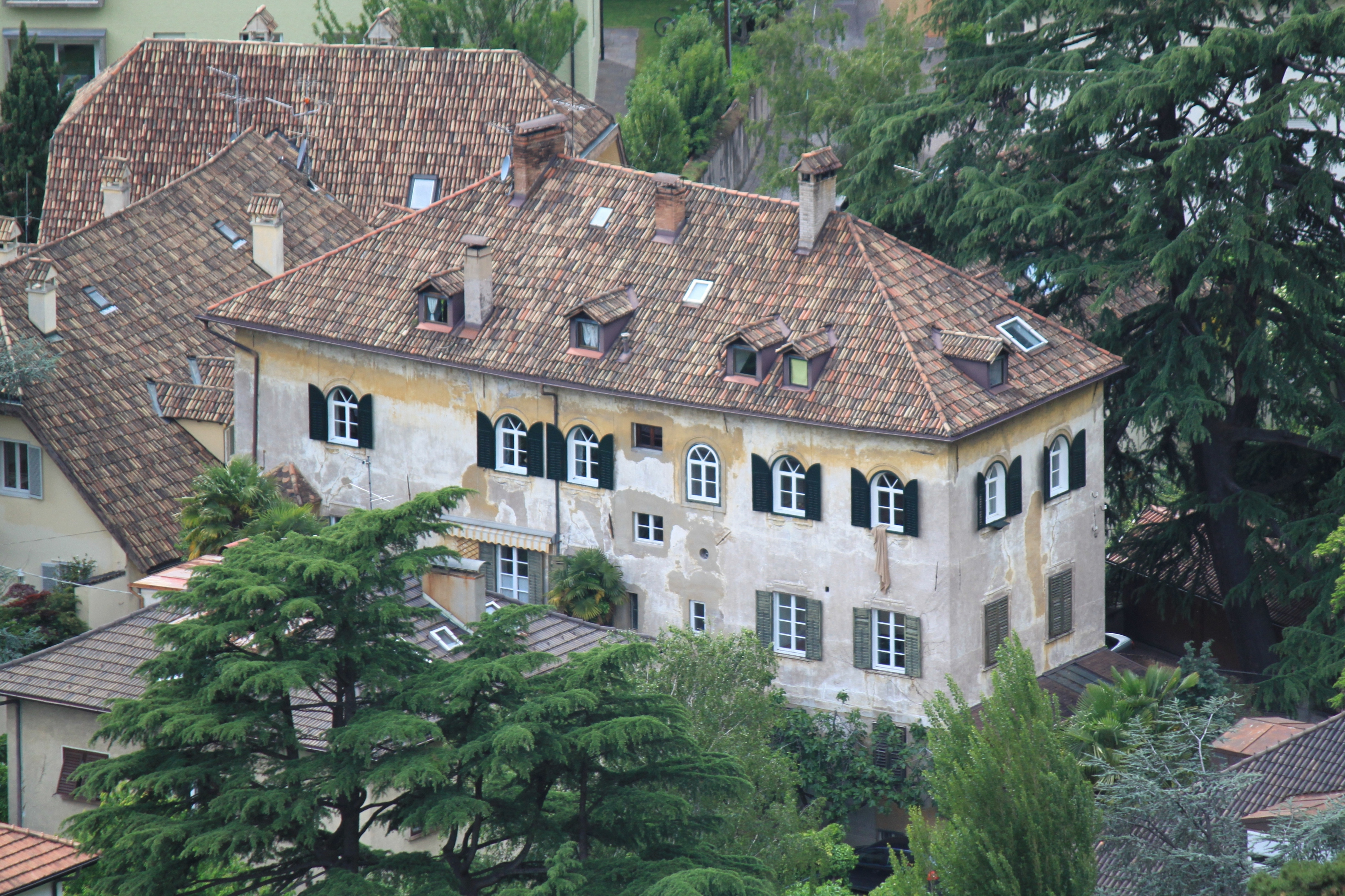 Unterpayrsberg in Bozen Bolzano South Tyrol